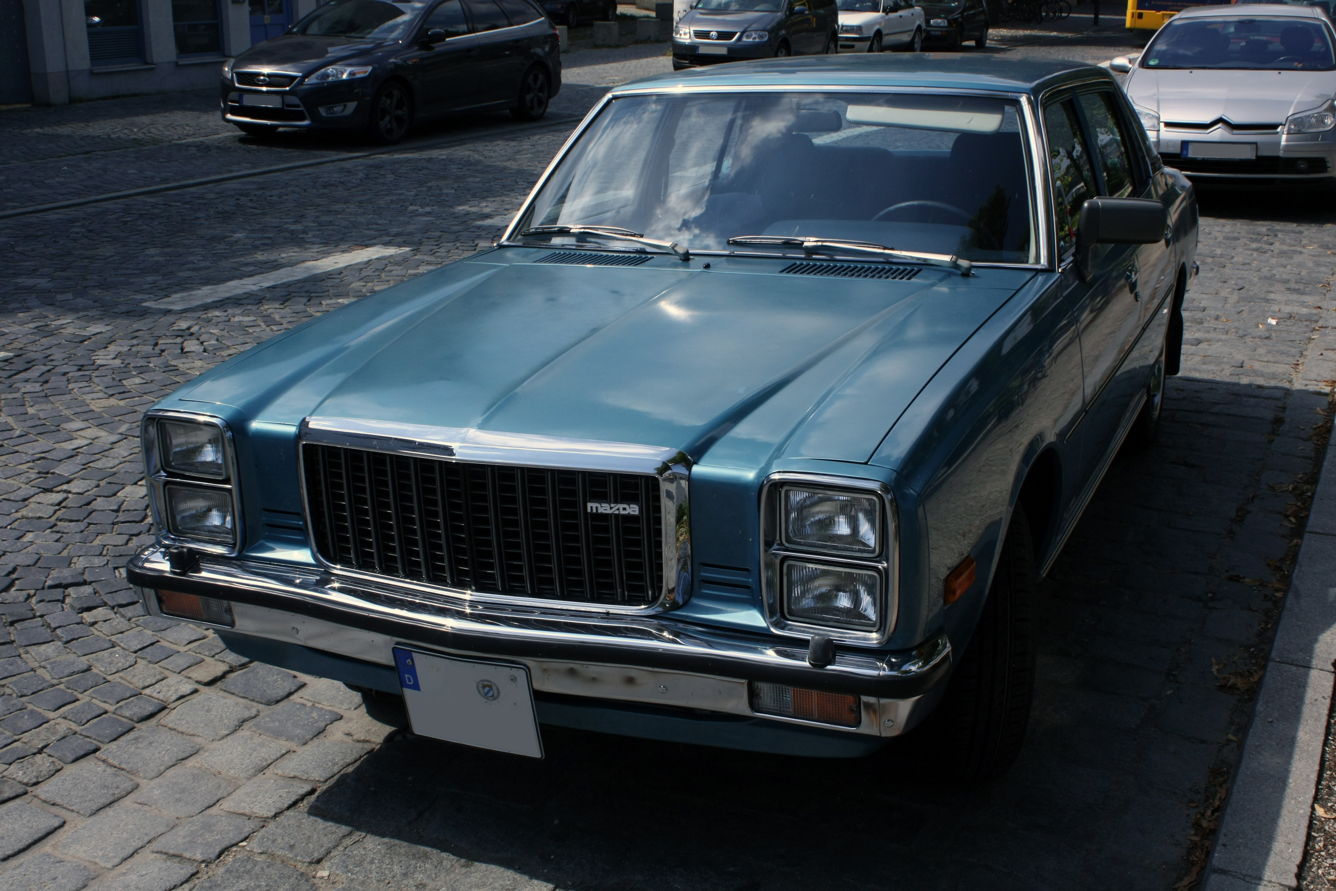 Mazda 929L